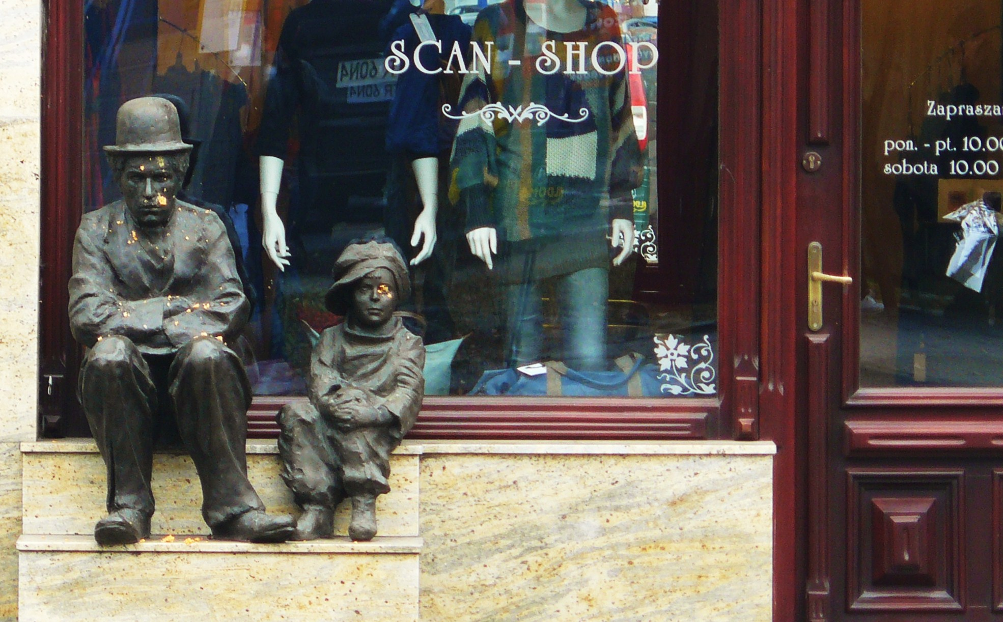 Chaplin monument, Chełmża.